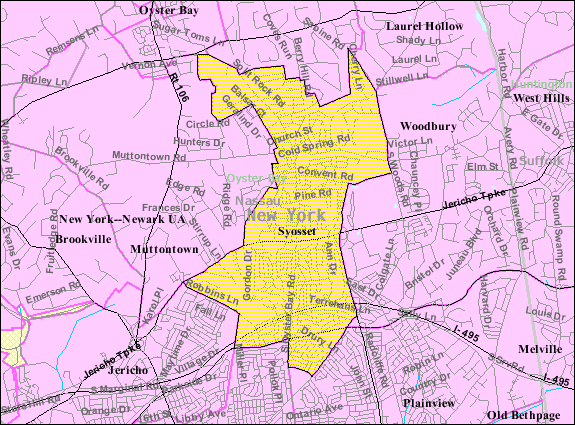 U.S. Census 2000 reference map for Syosset, New York